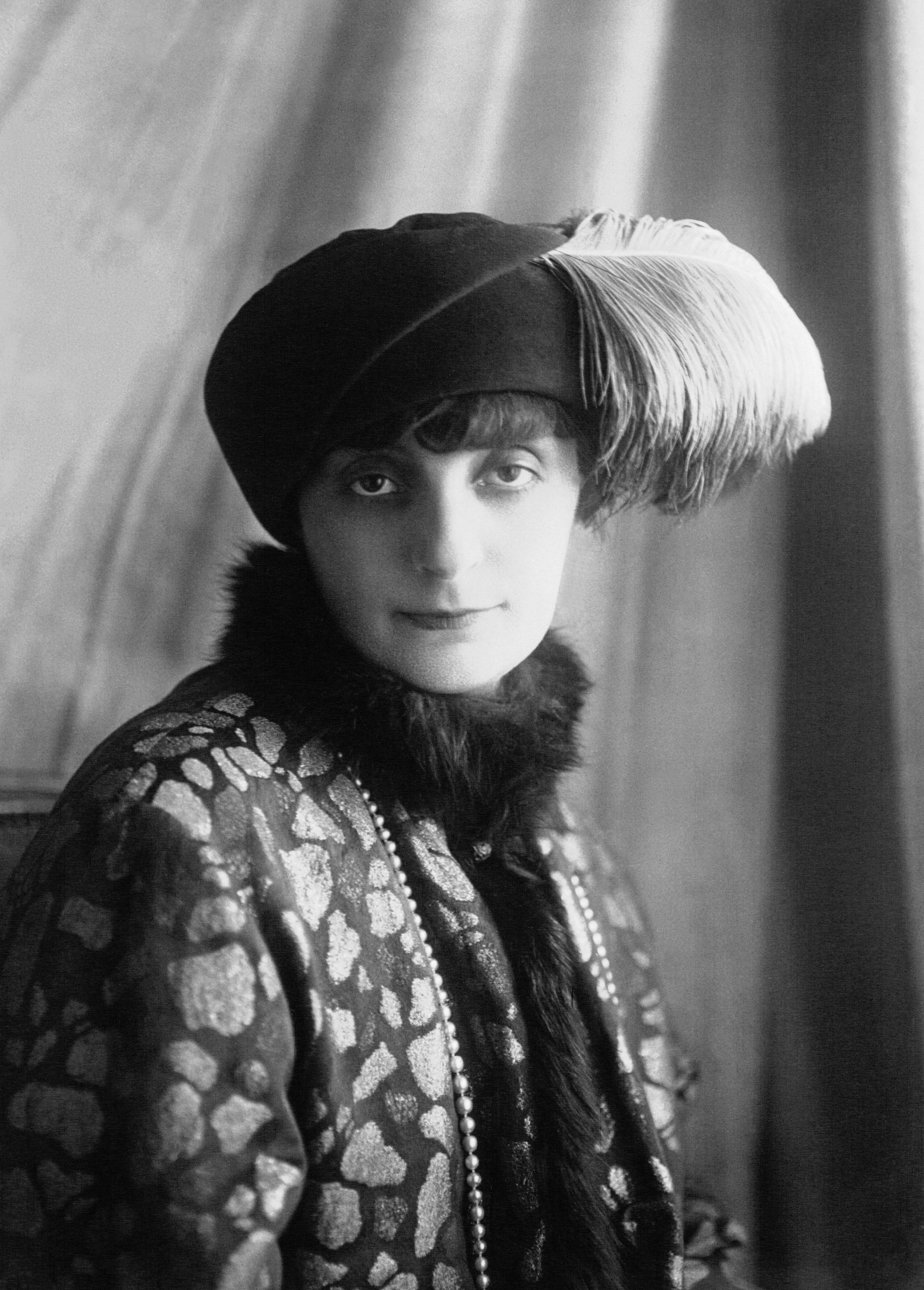 Princess Anna-Élisabeth Bibesco Bassaraba de Brancovan, who became Comtesse de Noailles, (1876-1933), French poetess and novelist. Cropped print